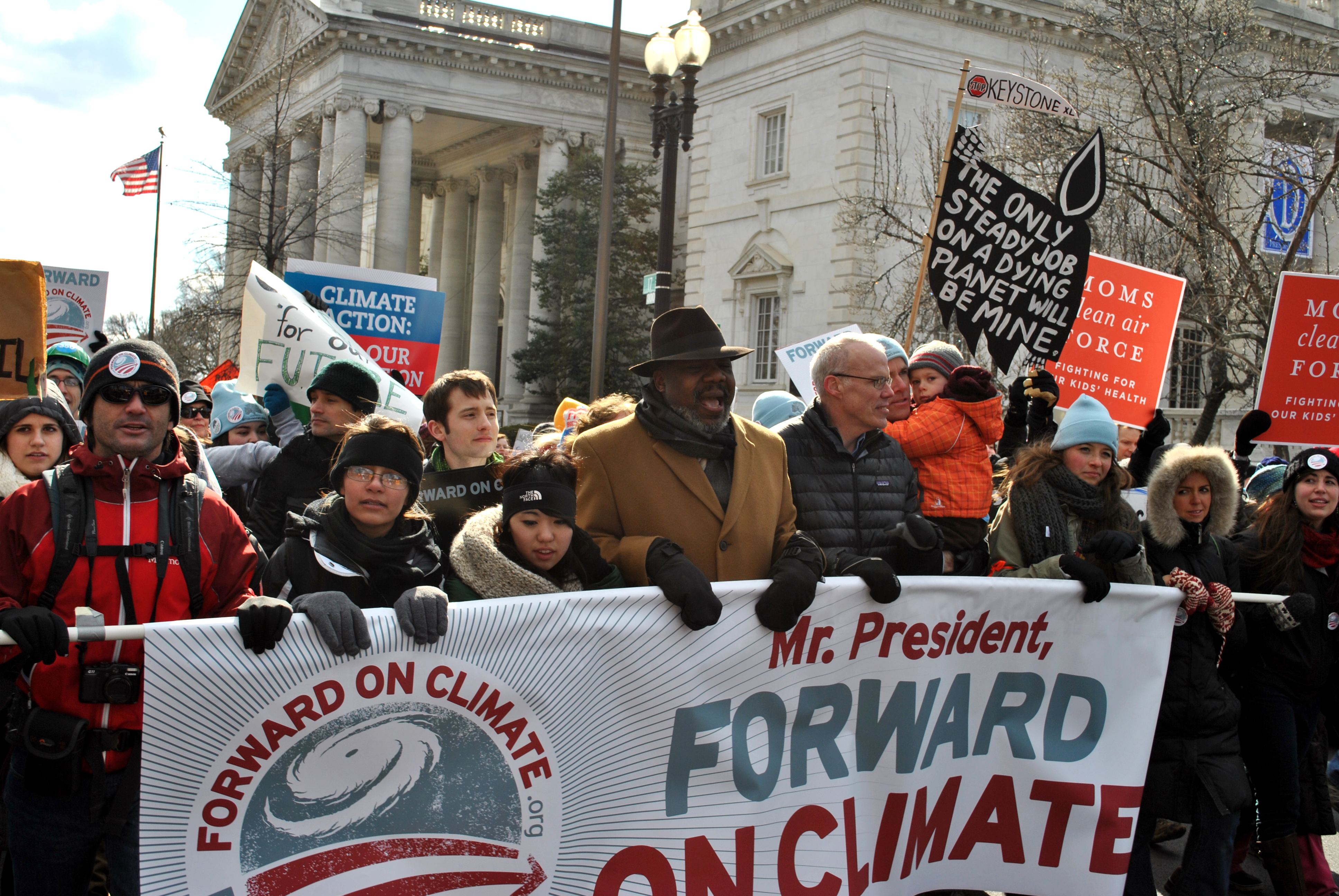 founder Bill McKibben at the Forward on Climate Rally in Washington DC, 2013 (center with black jacket)